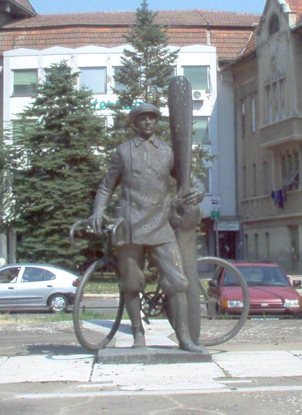 Monument to Ivan Saric, Serbian aviation pioneer. Subotica, Vojvodina, Serbia.